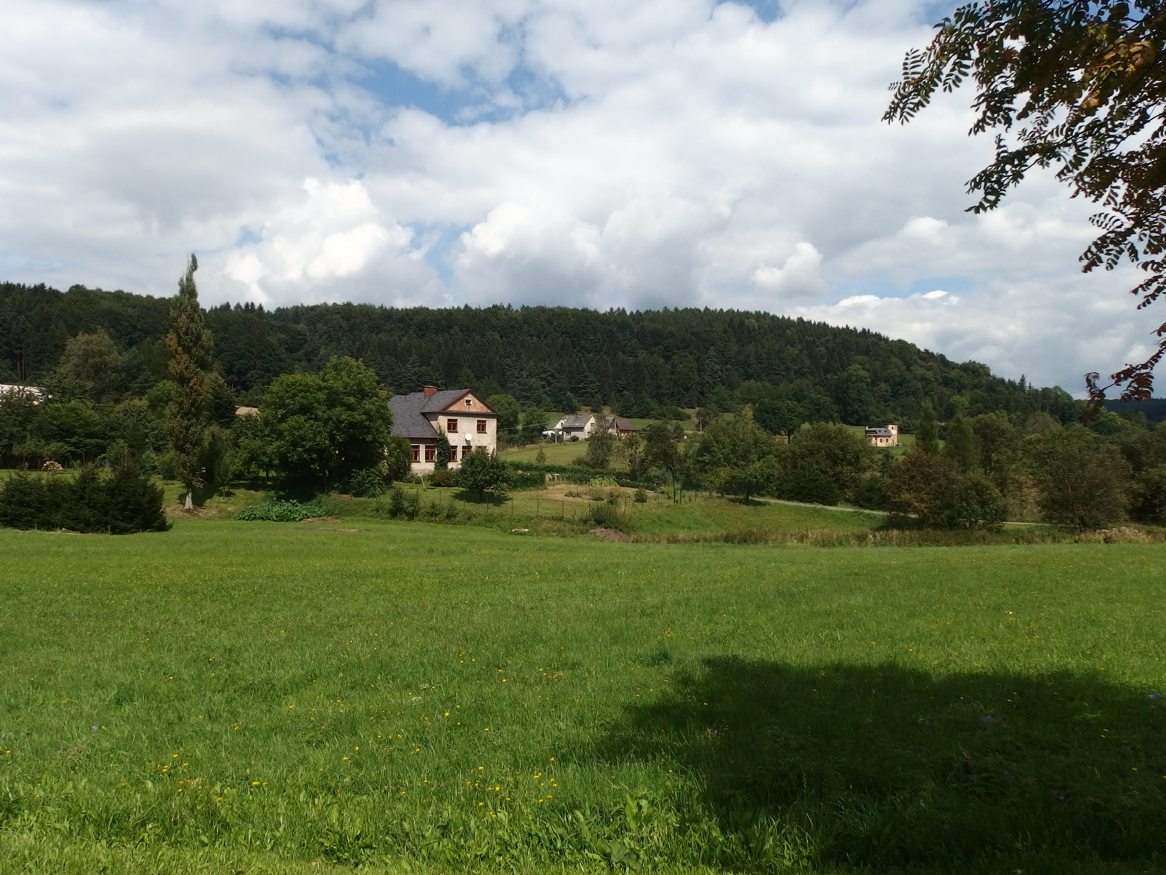 Staré Město, Svitavy District, Czech Republic, part Petrušov.